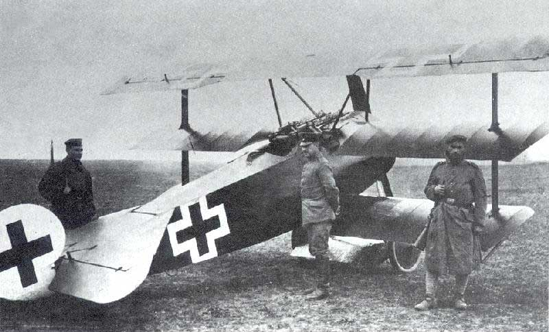 The red Fokker Dr1 of Manfred von Richthofen on the ground.